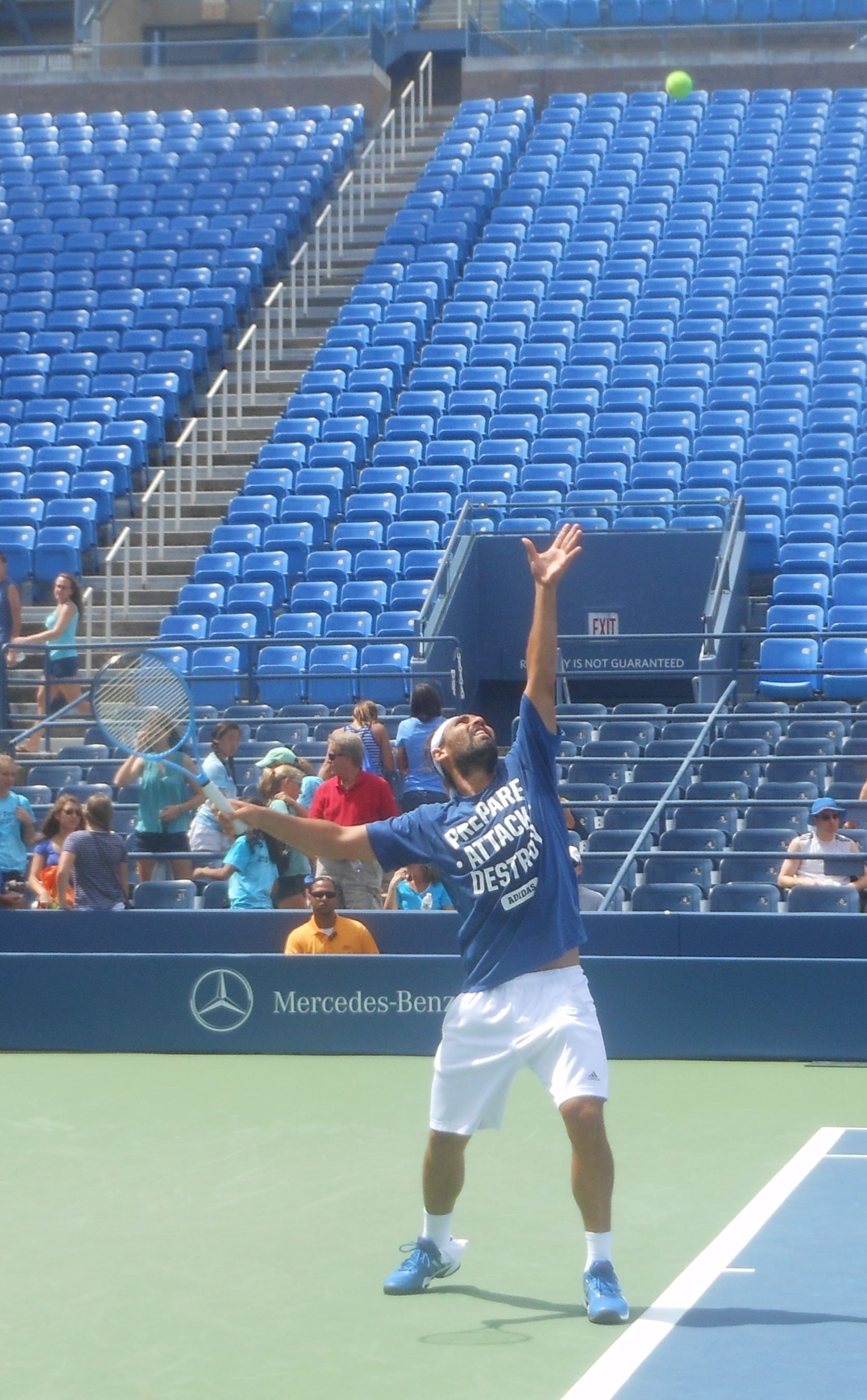 Marcos Baghdatis Serve at US Open 2013